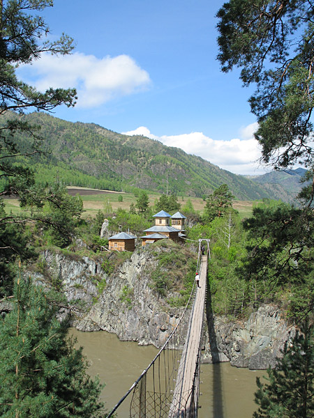 Patmos island (Altai, Russia)